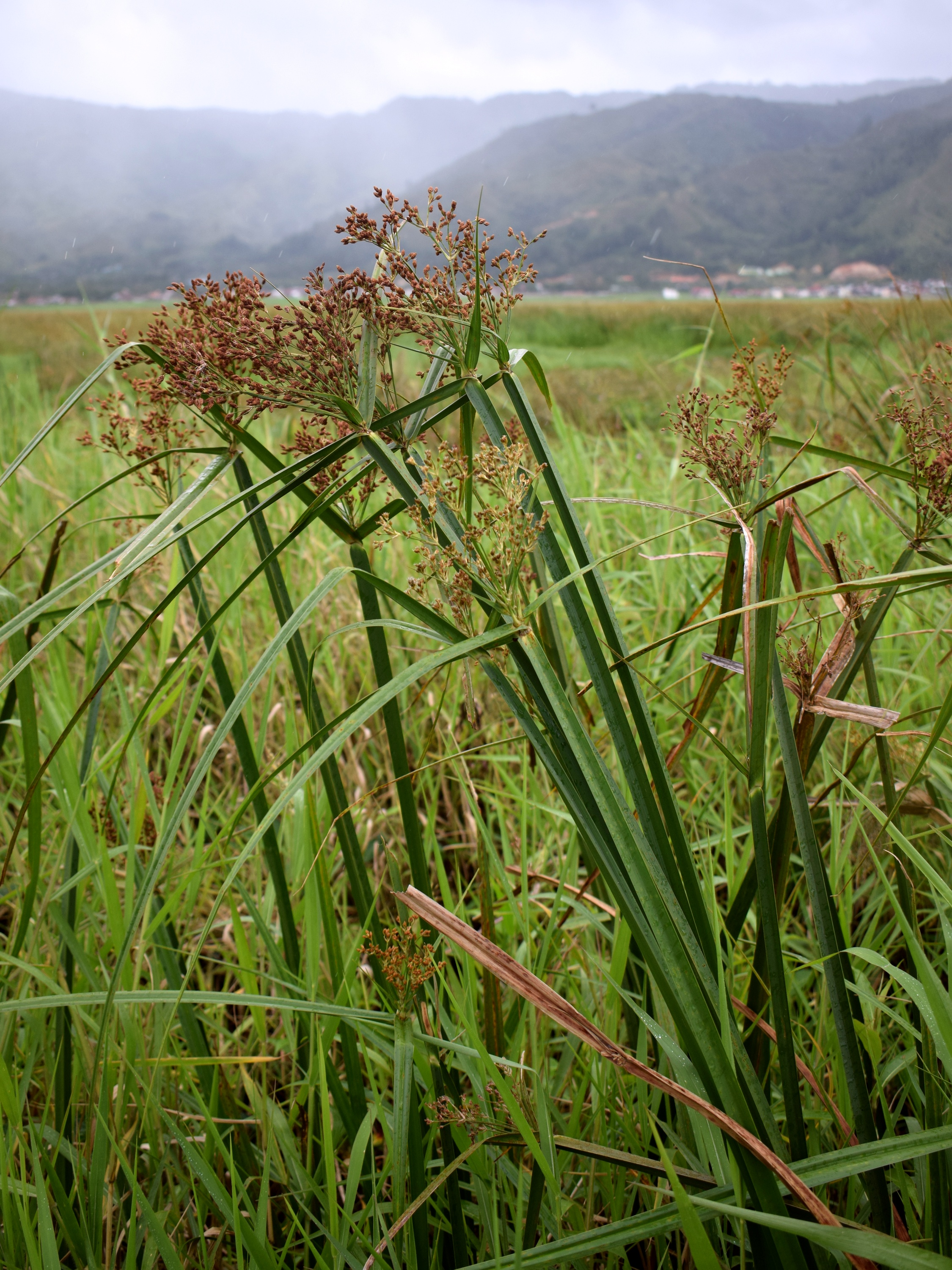 Actinoscirpus grossus. From Kerinci, Sumatra, Indonesia.